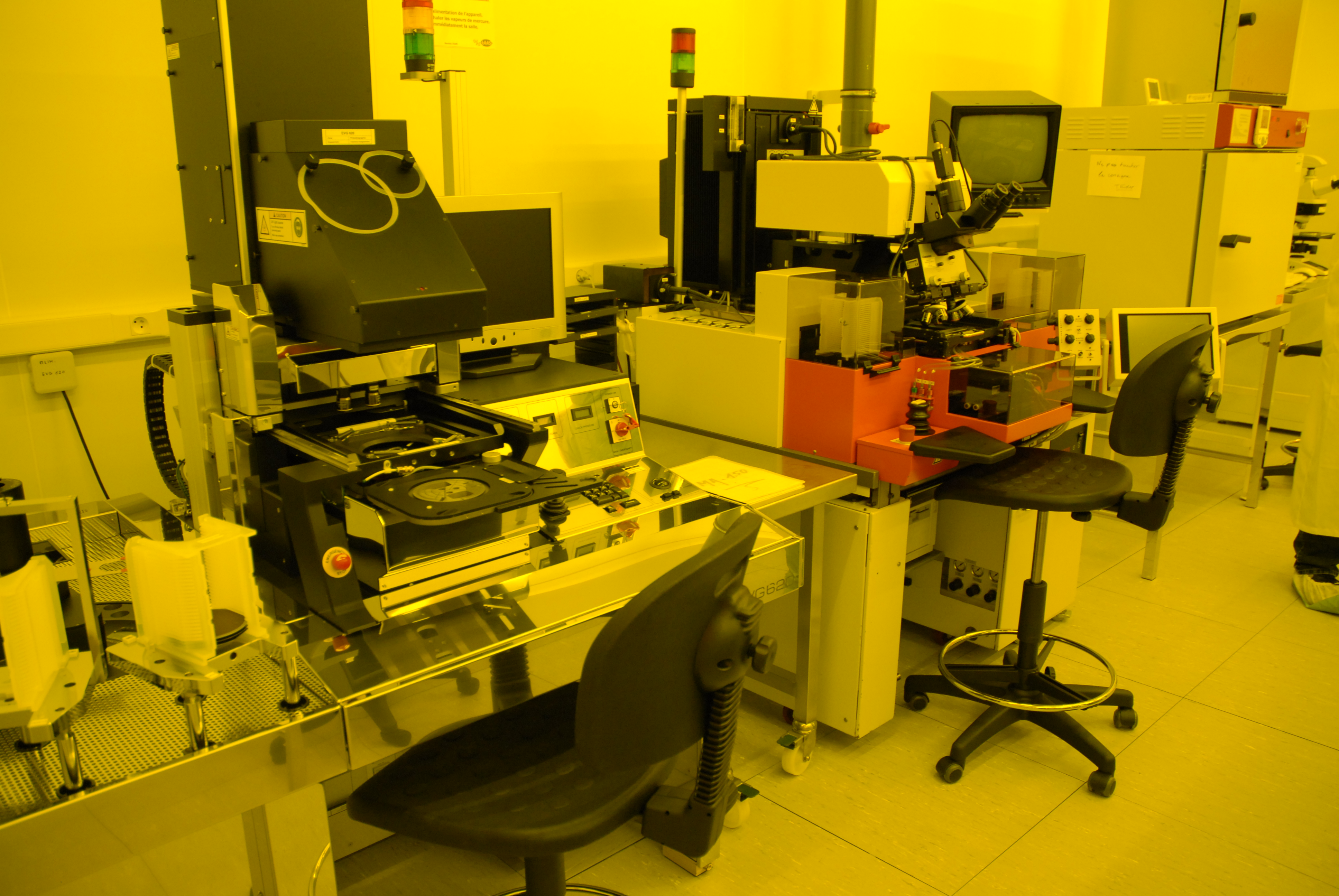 Two steppers (left: EVG-620; right: MA-150) under inactinic light at LAAS-CNRS technological facility in Toulouse, France.